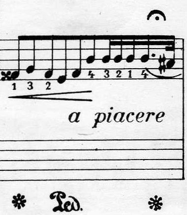 A piacere - example from Hungarian Rhapsody No. 2 by Franz Liszt (1811-1886) - a world famous Hungarian composer, virtuoso pianist and teacher